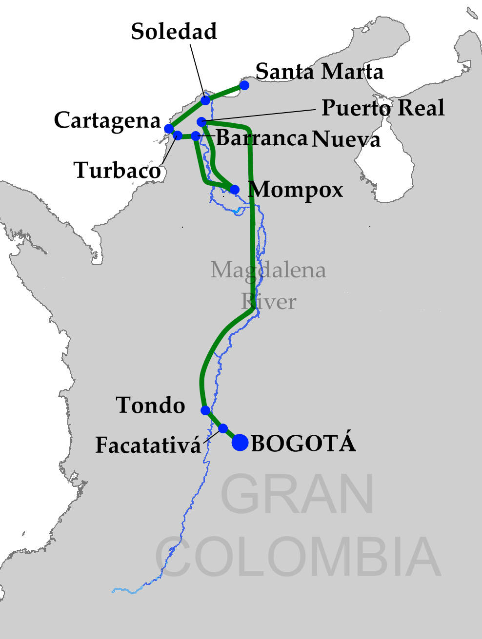 Route of Simón Bolívar as described in The General in his Labyrinth by Gabriel García Márquez